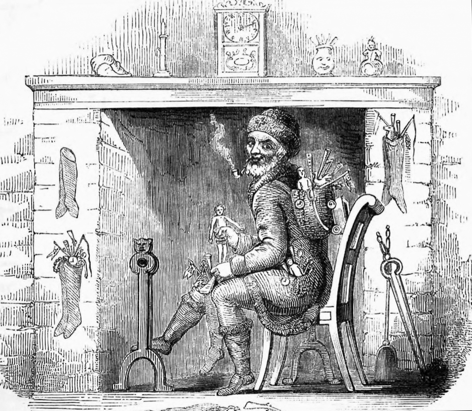 Santa Claus, as illustrated for English readers of Howitt's Journal of Literature and Popular Progress for 1848